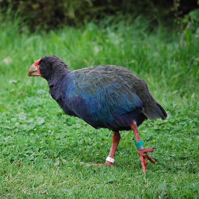 Takahē (also called the South Island Takahē) on Tiritiri Matangi Island, New Zealand.